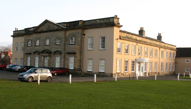 Bedale Hall Bedale Hall is at the north end of the main street and its front looks northwards towards the countryside. The oldest part of the building is the 5 bay ashlar front [seen here] which dates from the 1730s, and was built for the Pierce family. The rendered wings to the left and right are later. During WW2 it was requisitioned for use by the armed forces and fell into disrepair once squatters moved in in 1948. The local district council purchased it in 1951 and began restoration work. It now belongs to Hambleton District Council and is used for functions, a library and a museum.